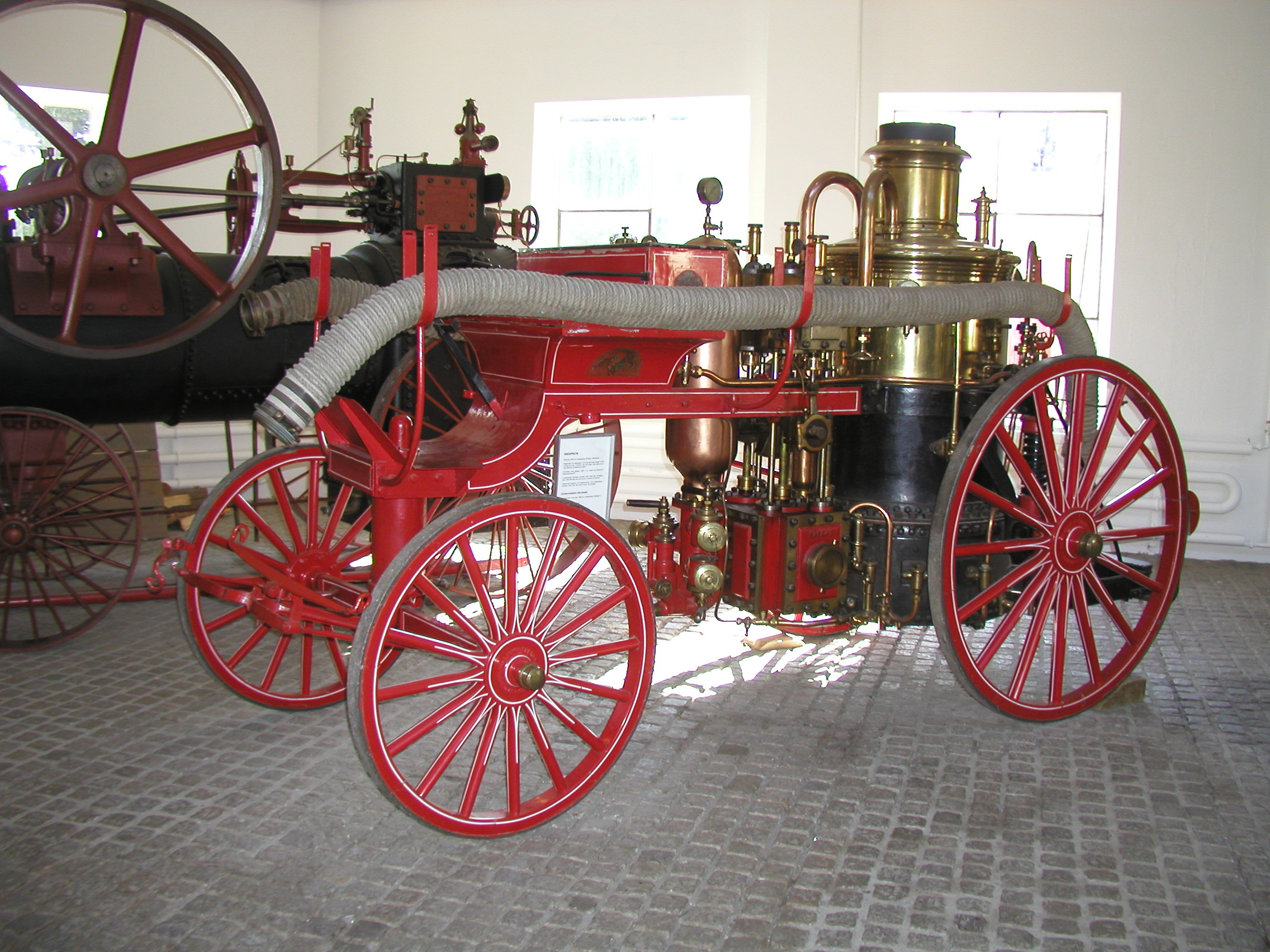 Steam-powered fire-engine manufactured 1896 by Ludwigsbergs Verkstad in Stockholm. Pulled by horses. used in Eskilstuna until 1926. Photo taken at Eskilstuna Stadsmuseum (City museum) in Eskilstuna, Sweden.